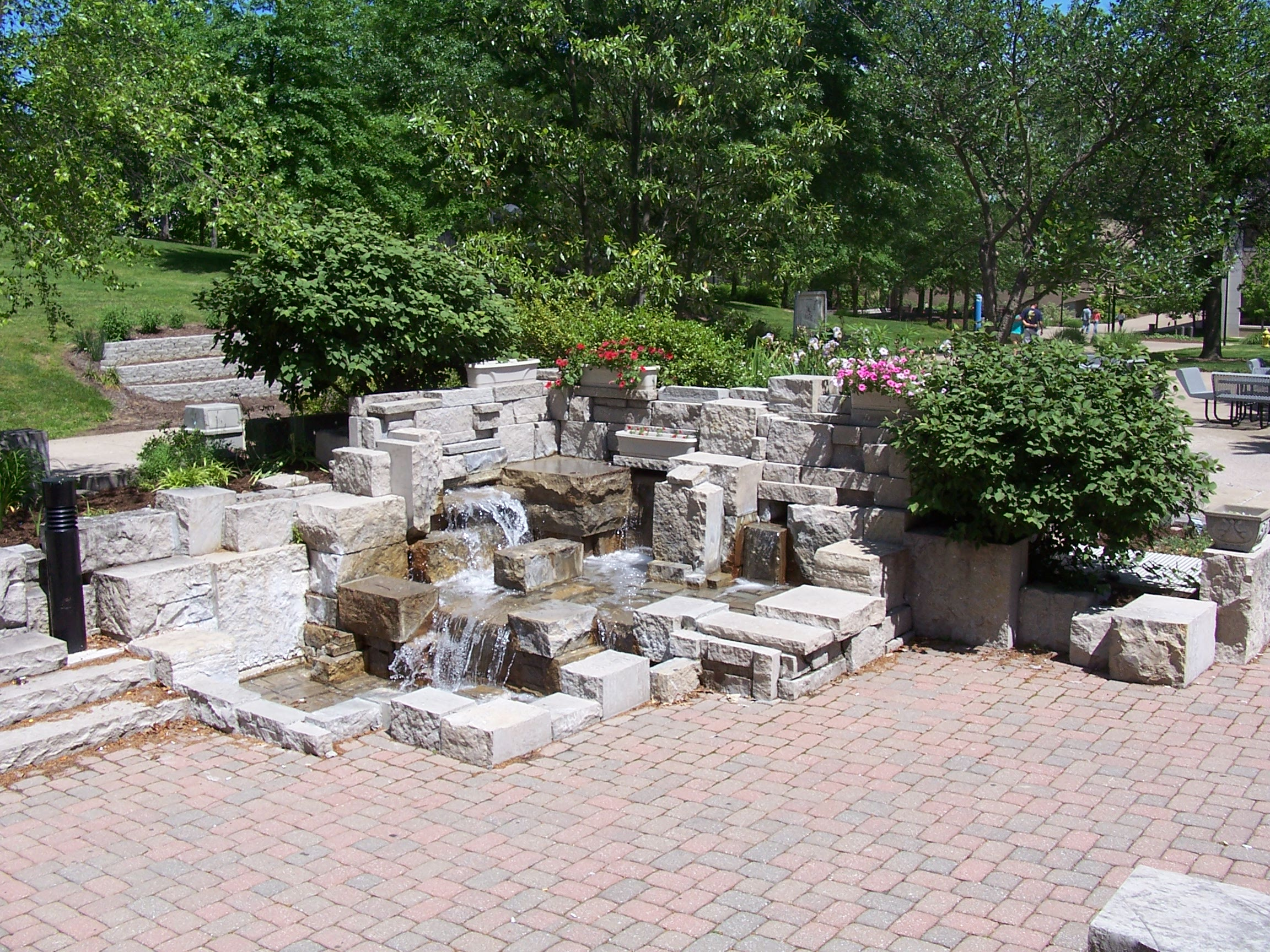 Another pic taken by myself. Ryan V. vogey2002 at yahoo dot com.